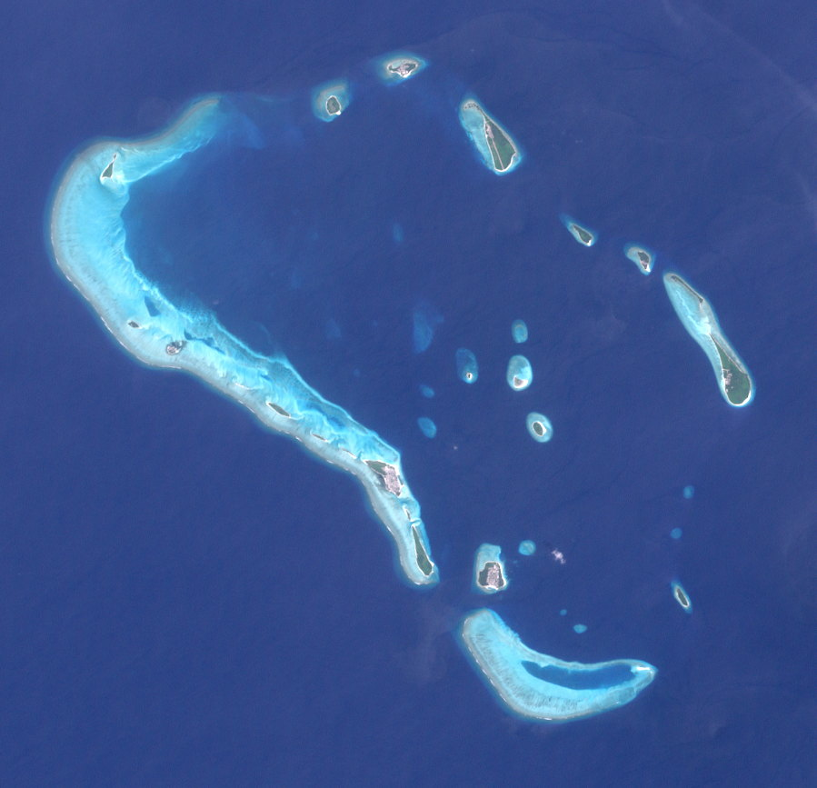 This image (Landsat 7) shows Ihavandhippolhu atoll, the northern most atoll in the Maledives.